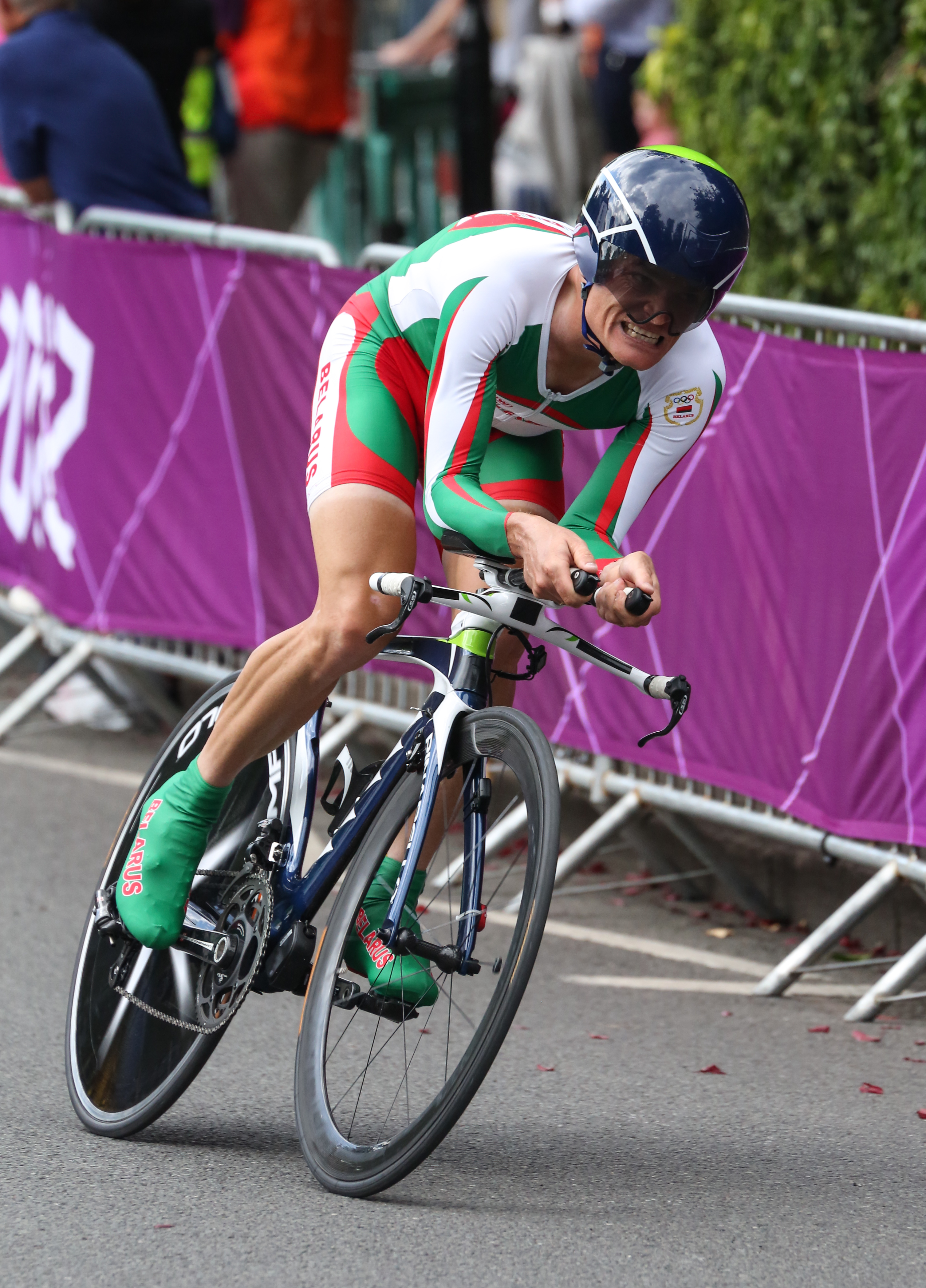 Vasil Kiryienka competing in the London 2012 Men's Olympic Time Trial.